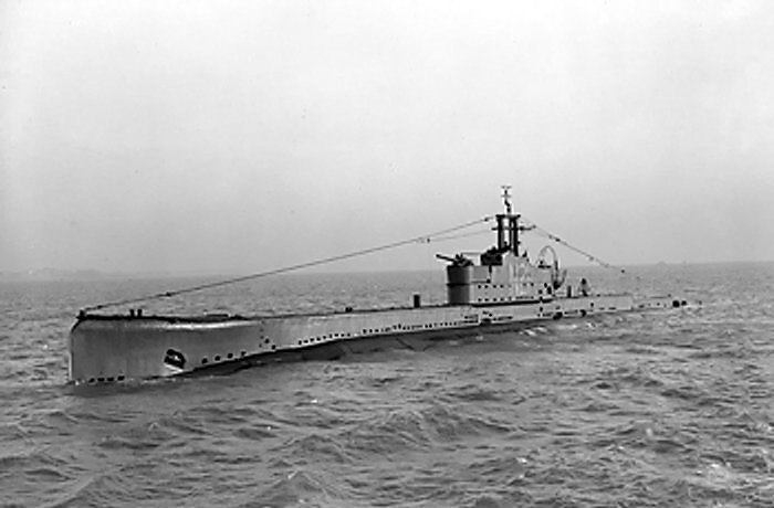 HMSM Oberon underway off Spithead.